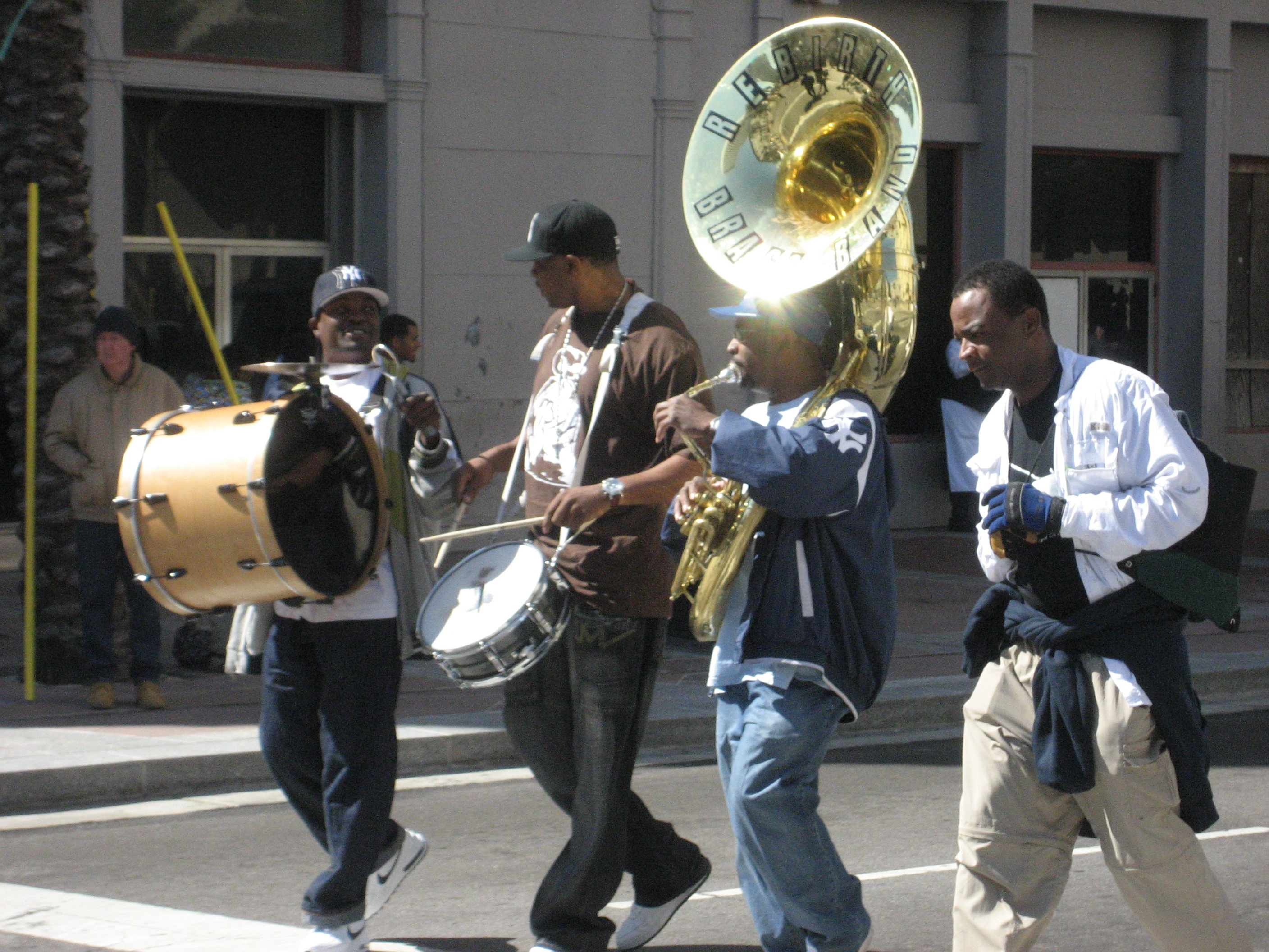 Rebirth Brass Band at small "Second Line" parade in the New Orleans Central Business District (Keith Frazier -Bass Drum, Derrick Tabb - snare drum, Phillip Frazier - tuba)